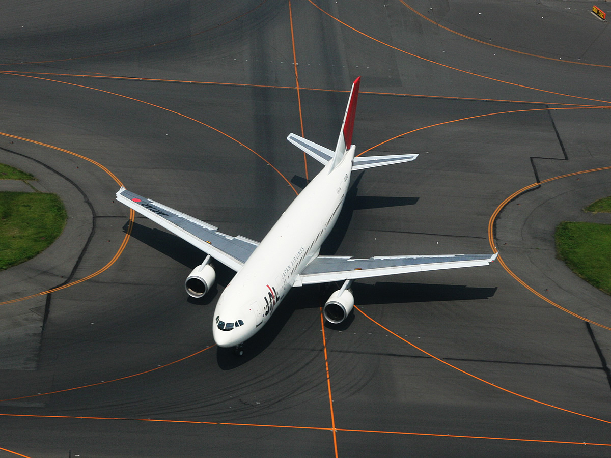 JAL A300-600R(JA014D)